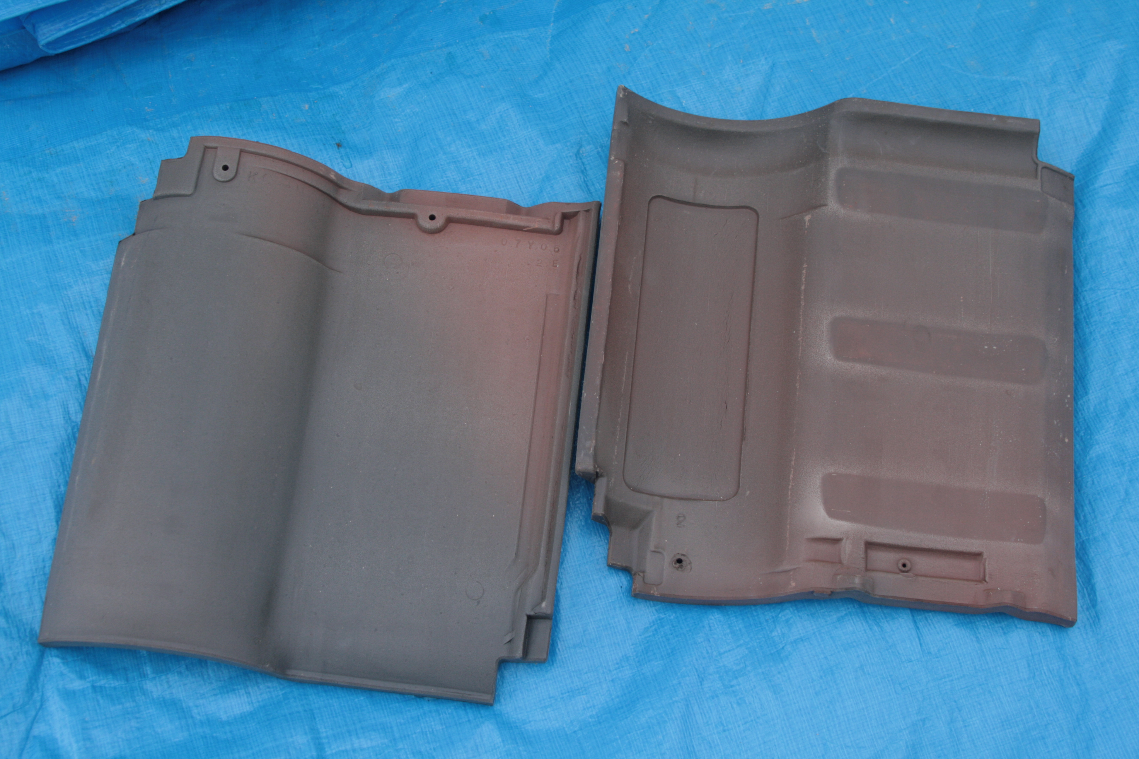 japanese roof tile （YOHEN_non glazed tile)